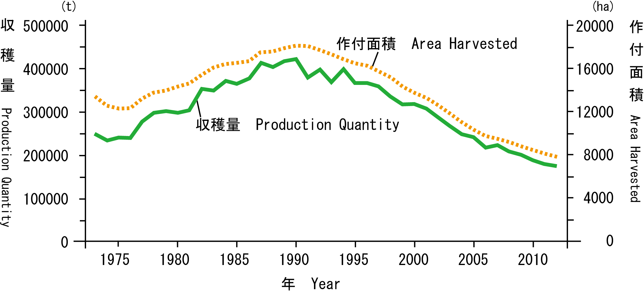 These graphs show production quantity and area harvested of melons in Japan from 1973 to 2012. Data from 1973 to 1981 are melons grown outdoor (露地メロン) and melons grown greenhouse (温室メロン). Data source is e-Stat, powered by Statistics Bureau, Ministry of Internal Affairs and Communications, Japan.